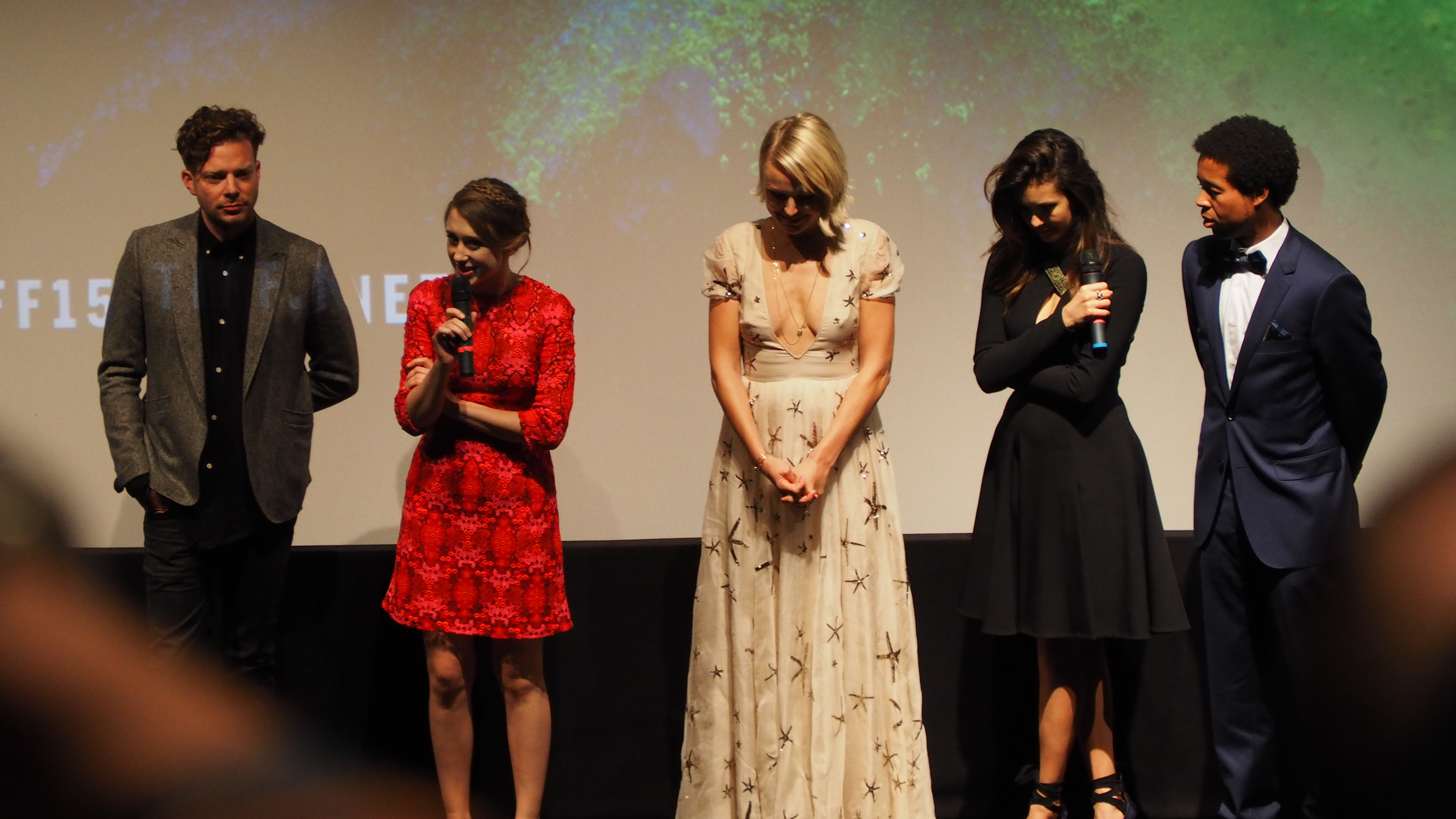 Director Todd Strauss-Schulson and actors Taissa Farmiga, Malin Åkerman, Nina Dobrev, and Tory N. Thompson at the 2015 Toronto International Film Festival for The Final Girls.